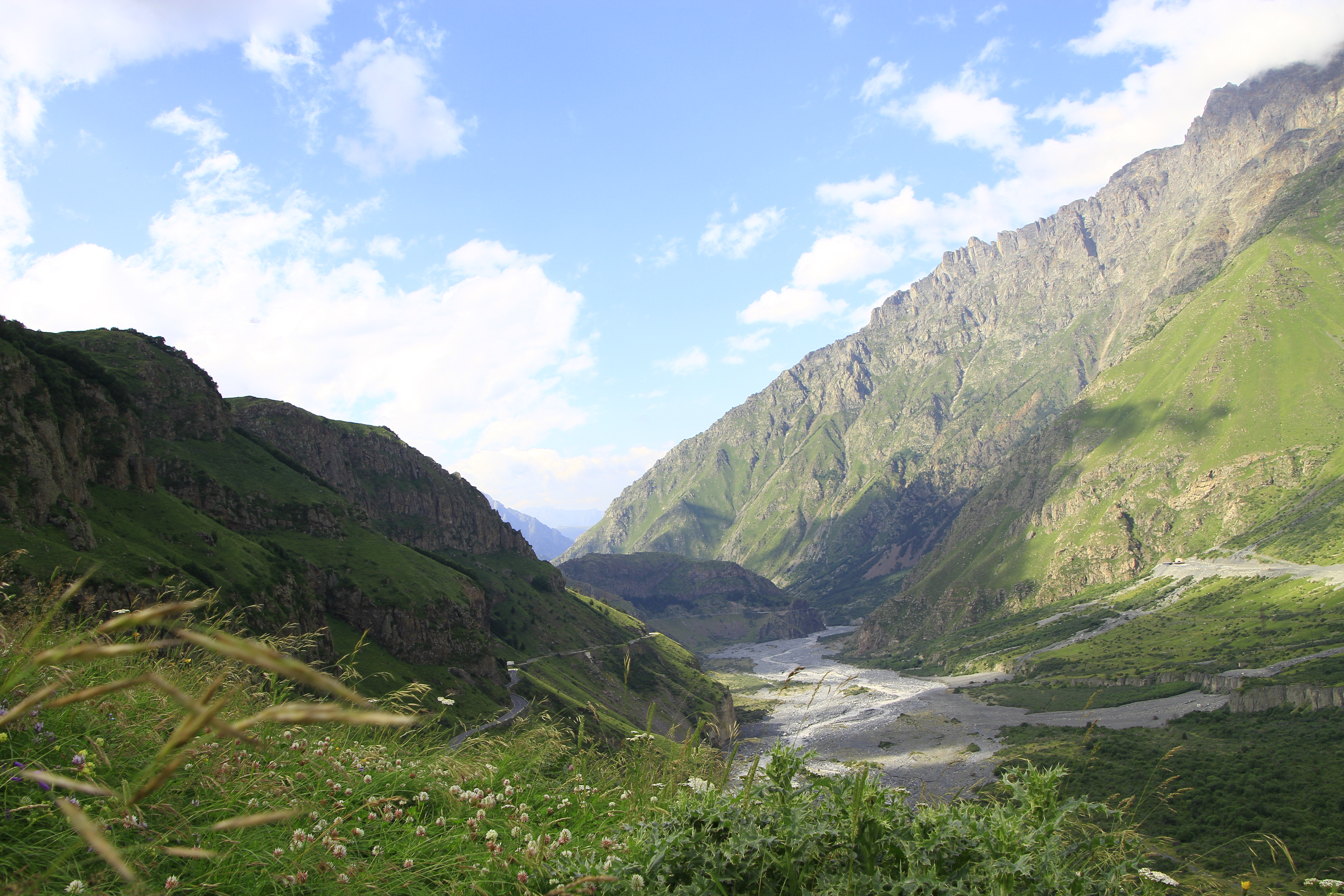 Darial/Dariali Gorge - view of the vast valley of the Terek River (Tergi) in the southern part of the gorge located in the territory of Georgia. North facing picture.